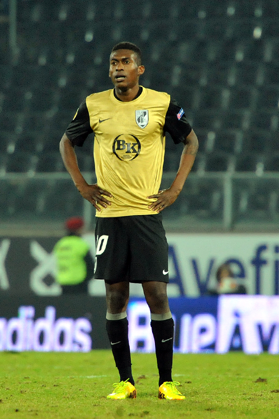 davidaddy europa league